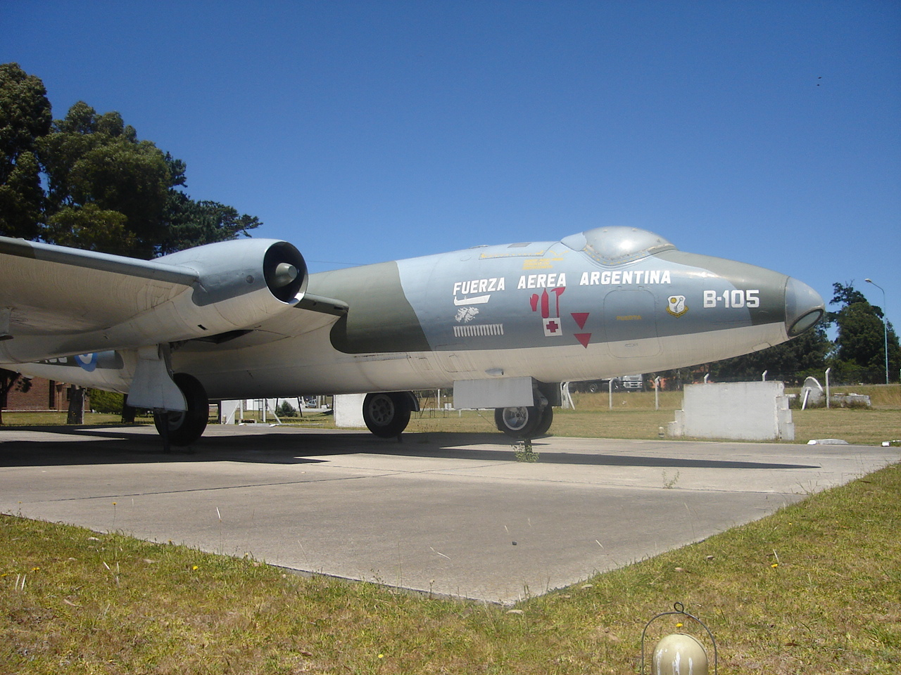 Argentine Air Force Canberra B.62 B-105 preserved at Mar del Plata airport, Argentina. Built in 1953 as B.2 Royal Air Force WH702. Refurbished and sold to FAA in 1969. From September 1971 used by II Brigada Aerea, Grupo de Bombardeo 1, at Parana (Entre Rios). Participated in Falklands (Malvinas) War in 1982 (Notice kill marks for bombing sorties). Retired in 1988.